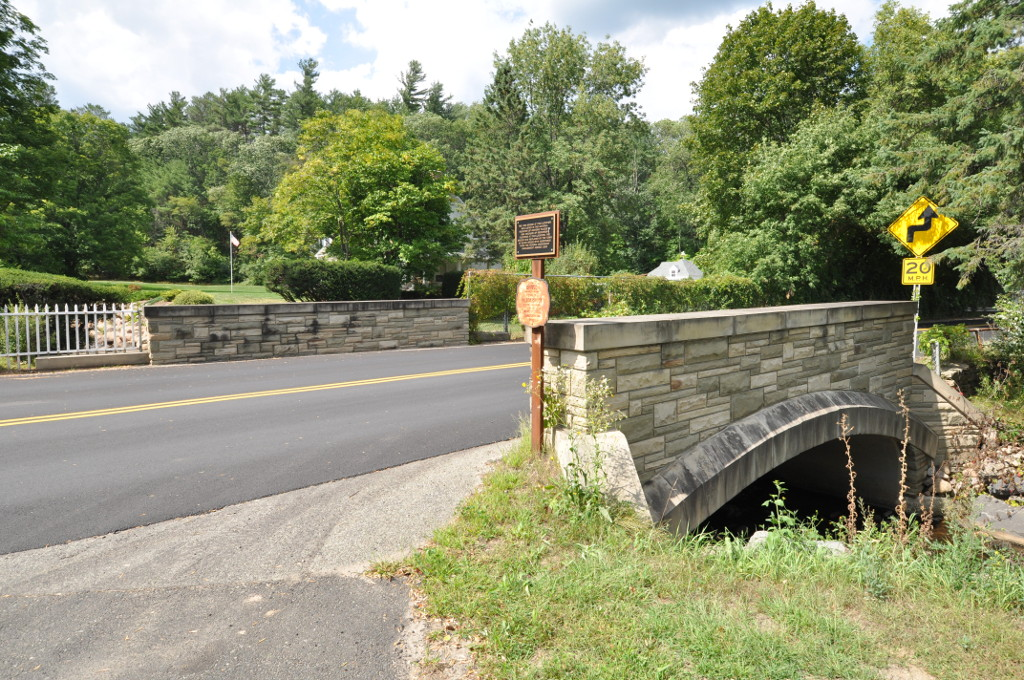 Palmer Brook Bridge, the 2003 replacement, Ausable Forks (Black Creek), New York.